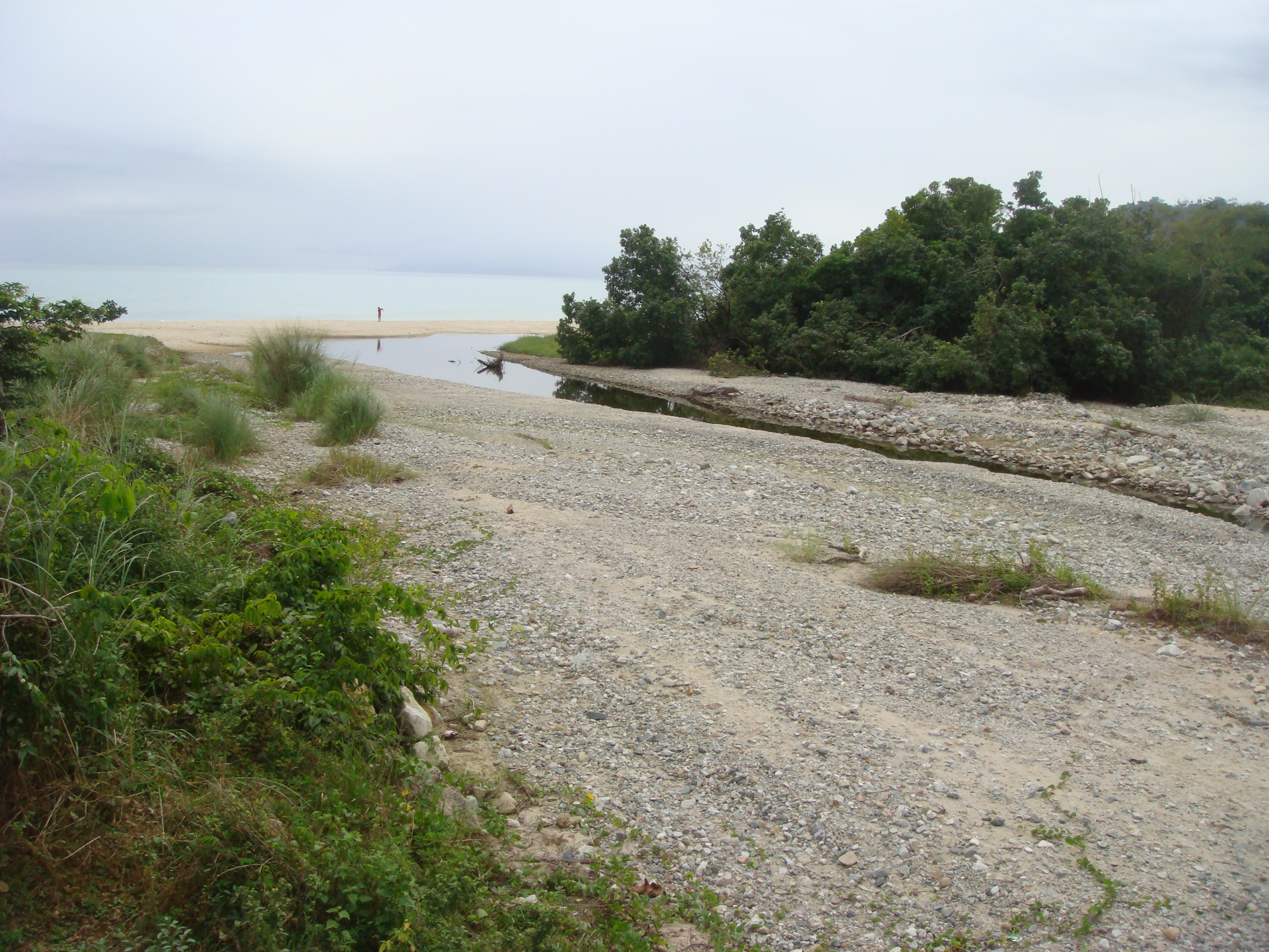 View from bridge in Dinadiawan, Dipaculao, Aurora, Philippines[1] white beach (a long stretch of clean, fine, golden white sand coastline) is one of the most beautiful beaches in Aurora, with a fabulous view of the Pacific Ocean, the lush, diverse forests of the Sierra Madre Mountain Range, and the rock formation along the shoreline (along the Dicadi Highway);[2](situated north of Baler thru the Dicadi highway, between Luzon’s Sierra Madre Mountain Range & the Pacific Ocean; almost 2 hours away from Aurora’s capital town, Baler)